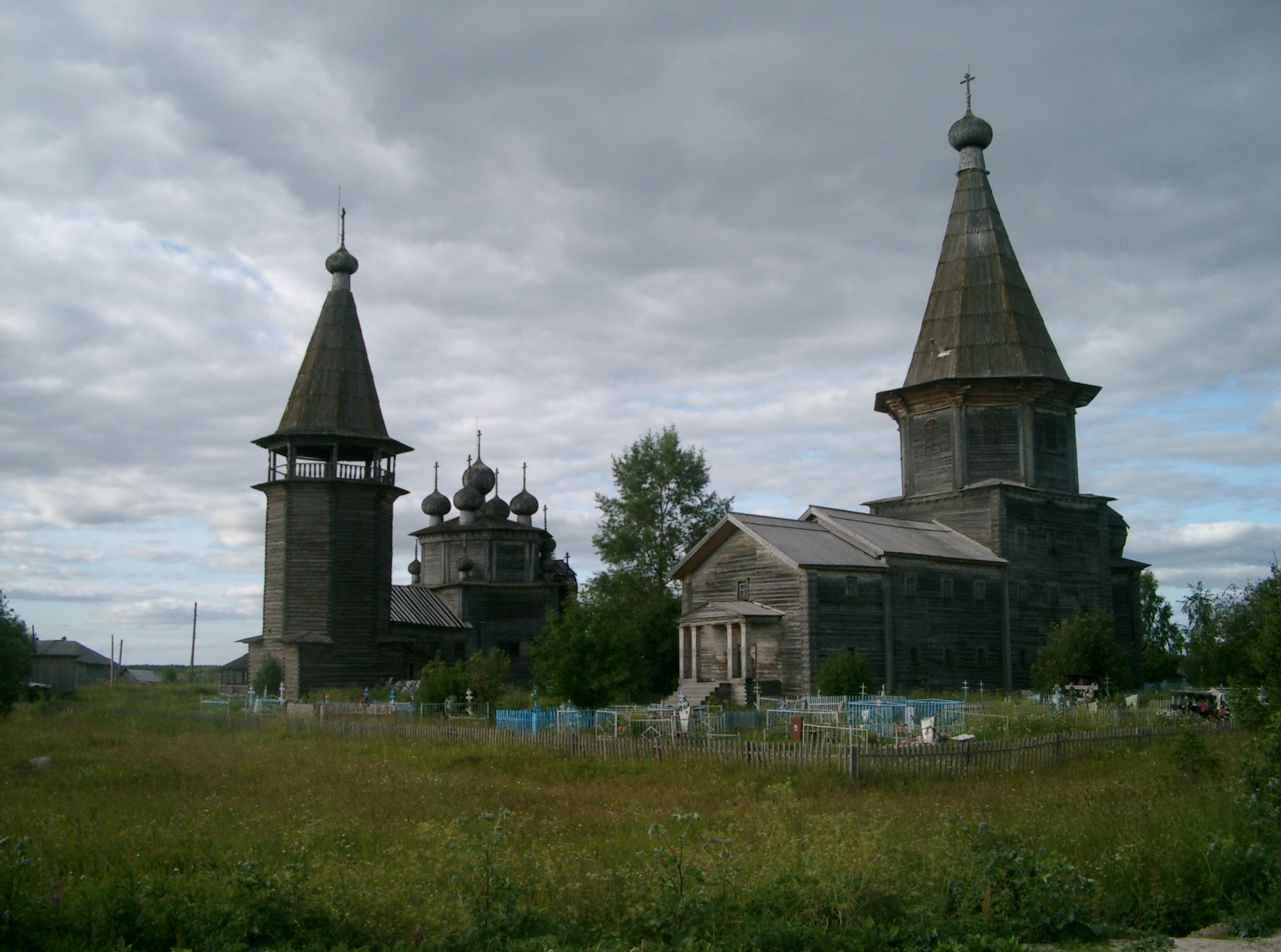 The triple ensemble of Lyadiny. Left to right: the bell-tower (1820), the Church of the Protection of the Theotokos (1693), the Intercession Church (1761). In 2013, the bell tower and the Intercession Church burned down.